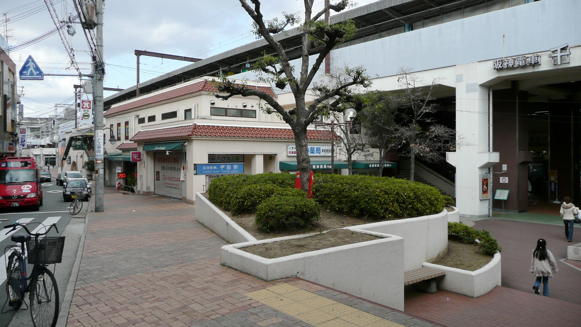 Hanshin Electric Railway,Main Line,Chibune Station west entrance and plaza. /阪神本線千船駅西口および西口駅前風景